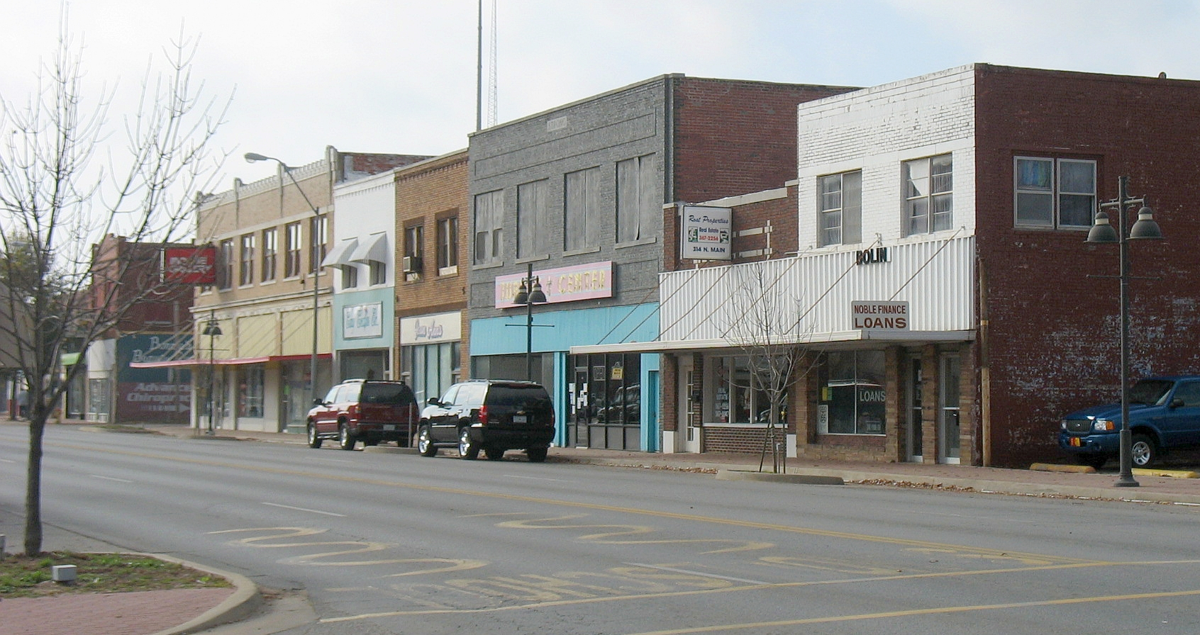 Bristow Main Street with the former Bush's Hi-Way Cafe on the right.